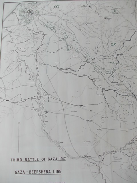 Western section of the Gaza to Beersheba line Other information Crown copyright access unrestricted